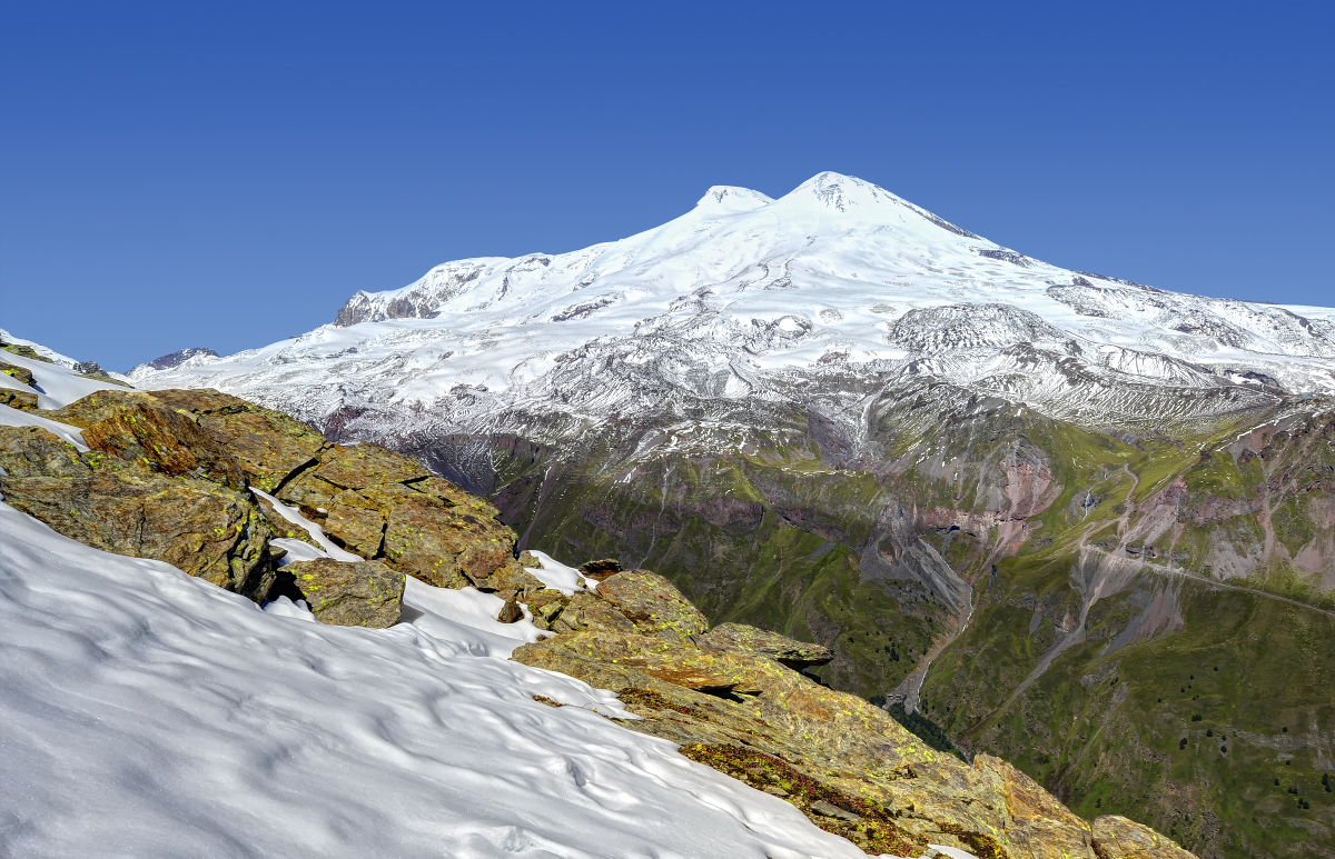 Mount Elbrus - the view from the mountain Cheget. Caucasus. Russia.